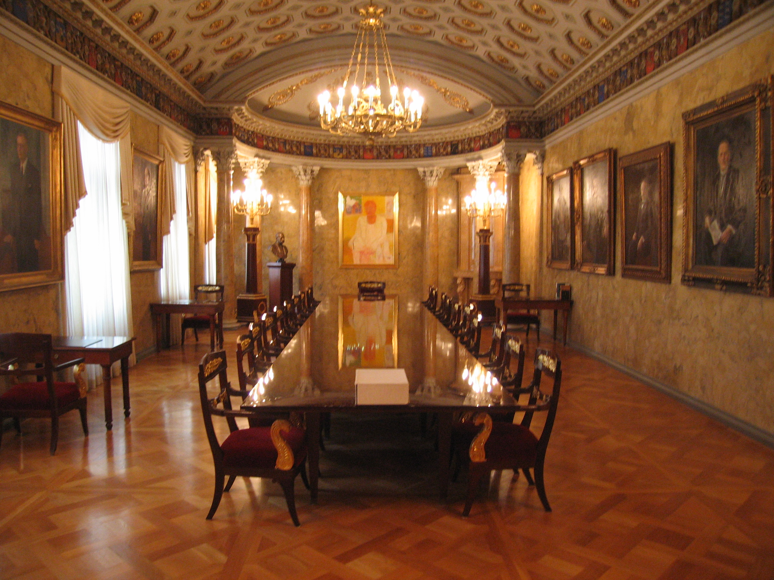 The Government Palace, Helsinki, Finland: Presidential hall